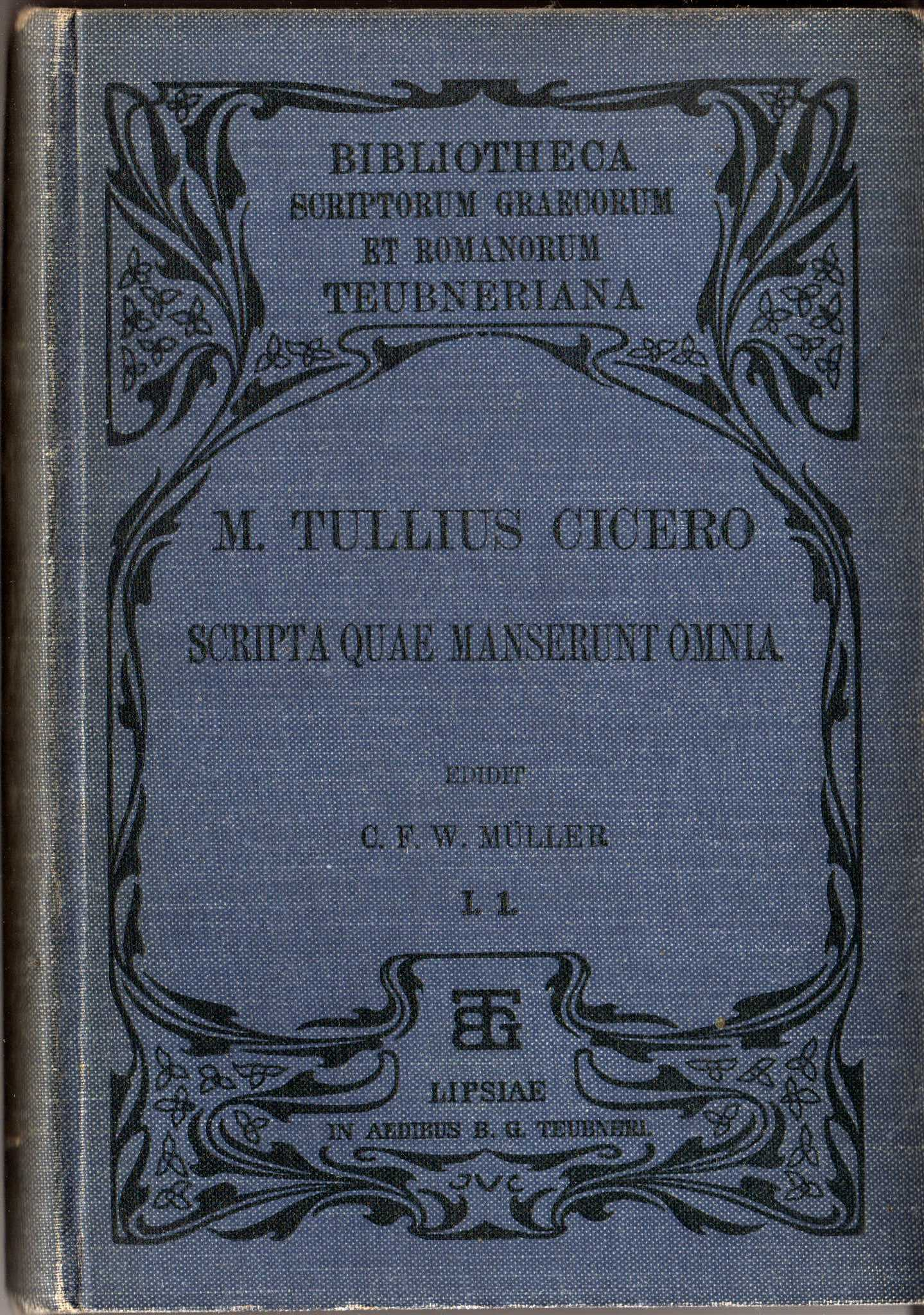 Book cover, Cicero publ. Teubner, 1908